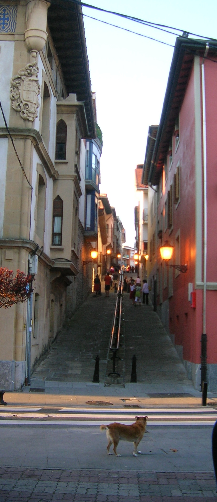 Street of the old quarter of Plentzia, Biscay, Spain